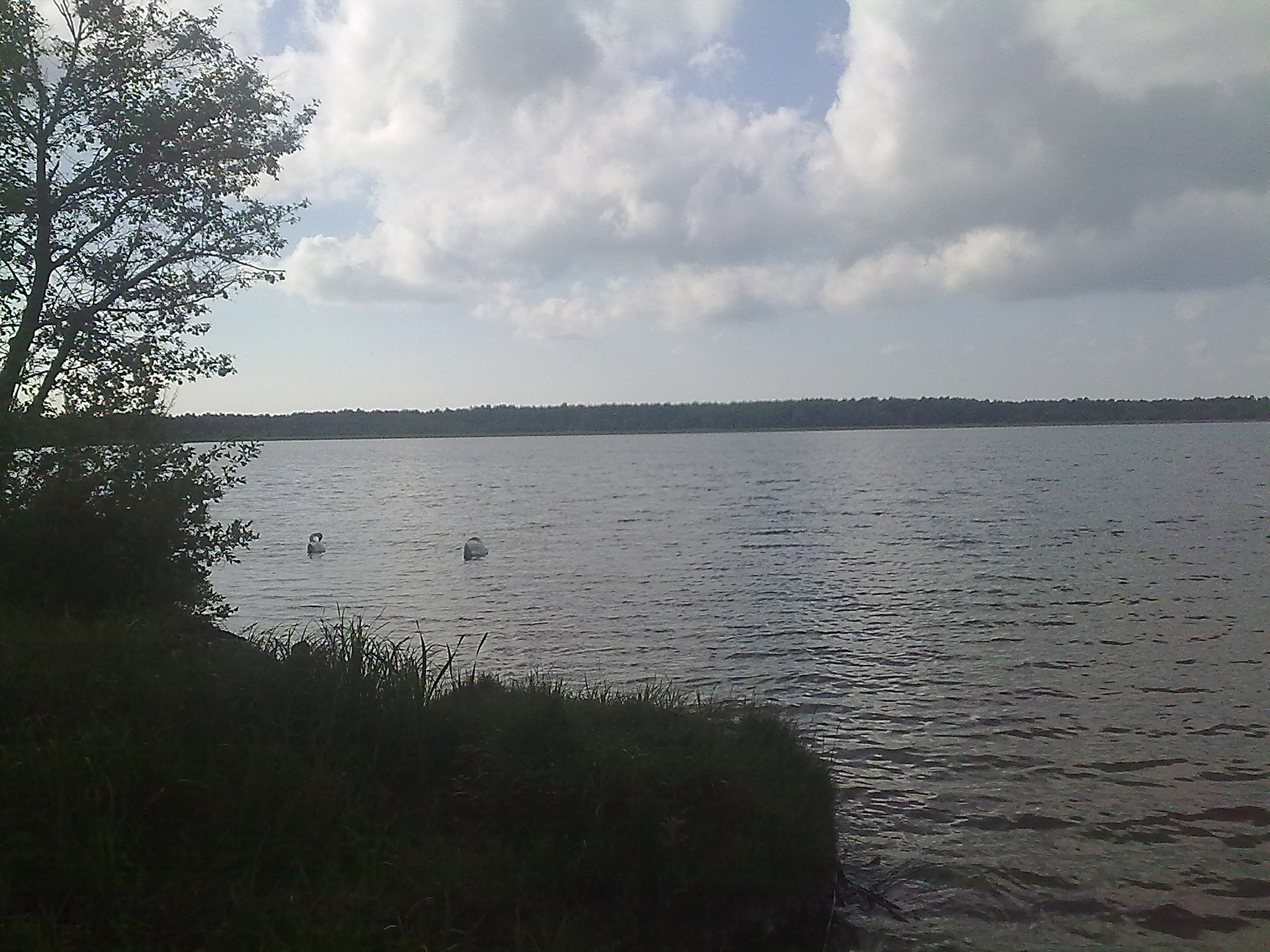 Big Zgorany lake. Liuboml Raion. Volyn Oblast. Ukraine.